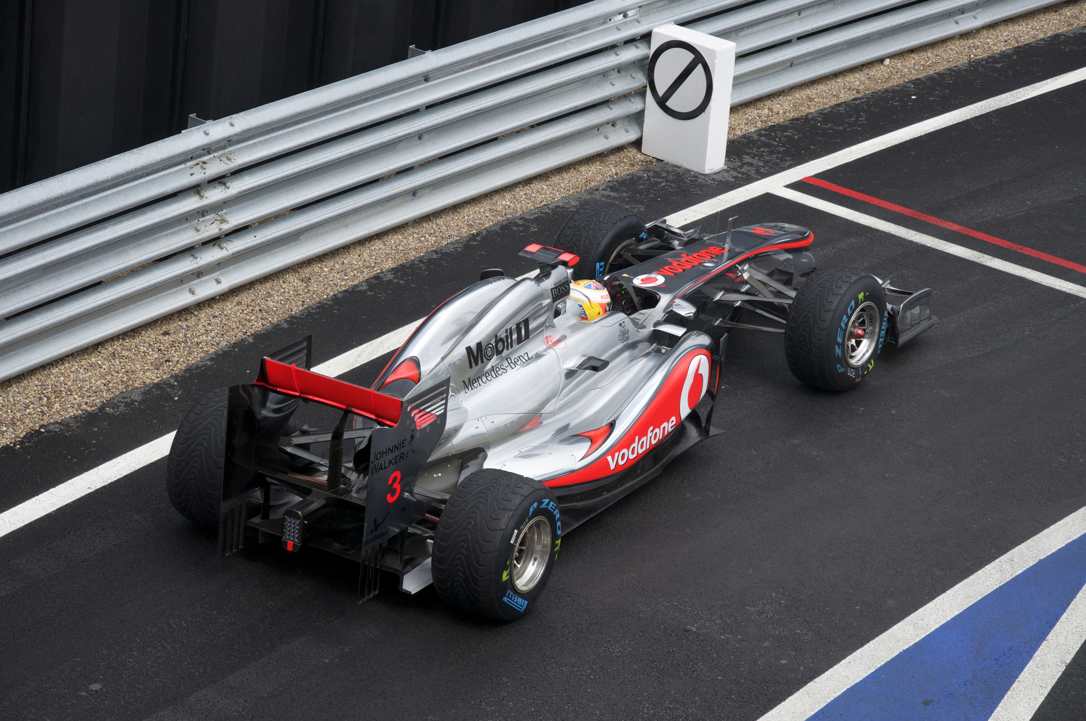 Lewis Hamilton in McLaren MP4-26 at pit-lane 2011 British GP